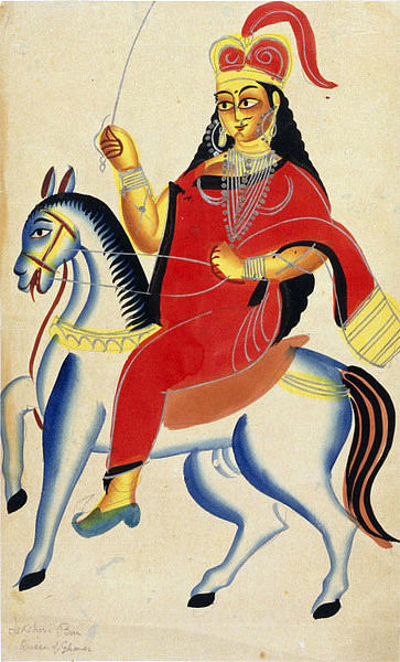 Rani of Jhansi